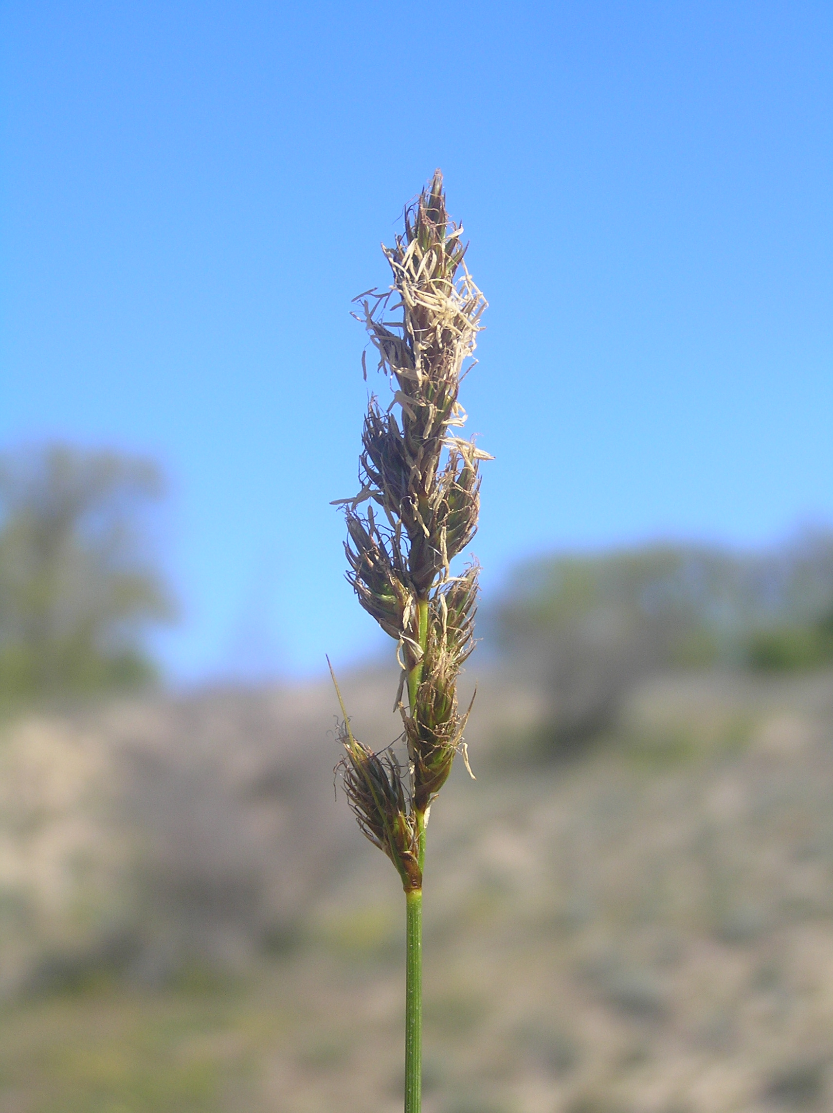 Carex ligerica, near the coast of the Black Sea, Ropotamo, Bulgaria